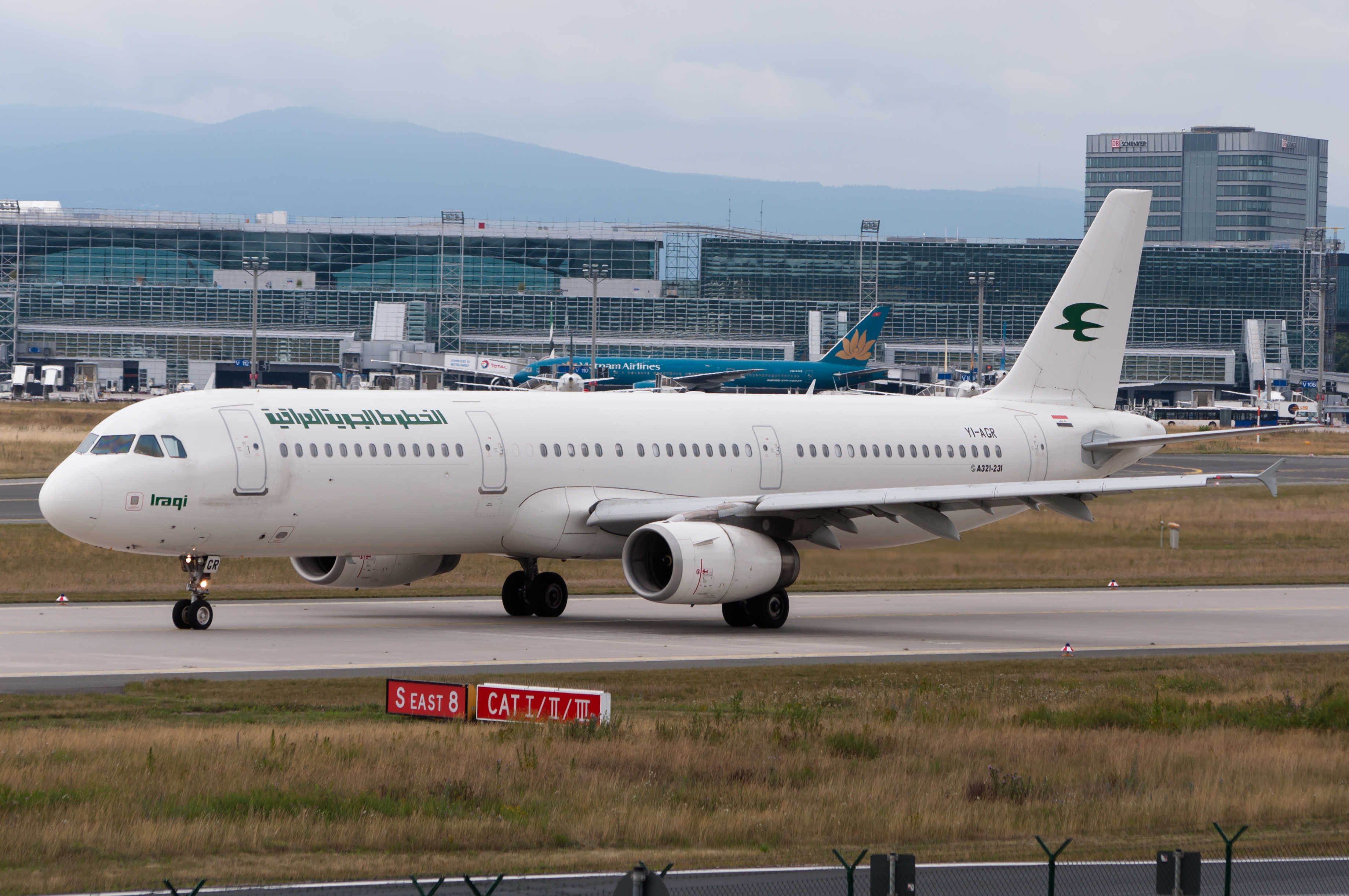 Frankfurt, July 2014